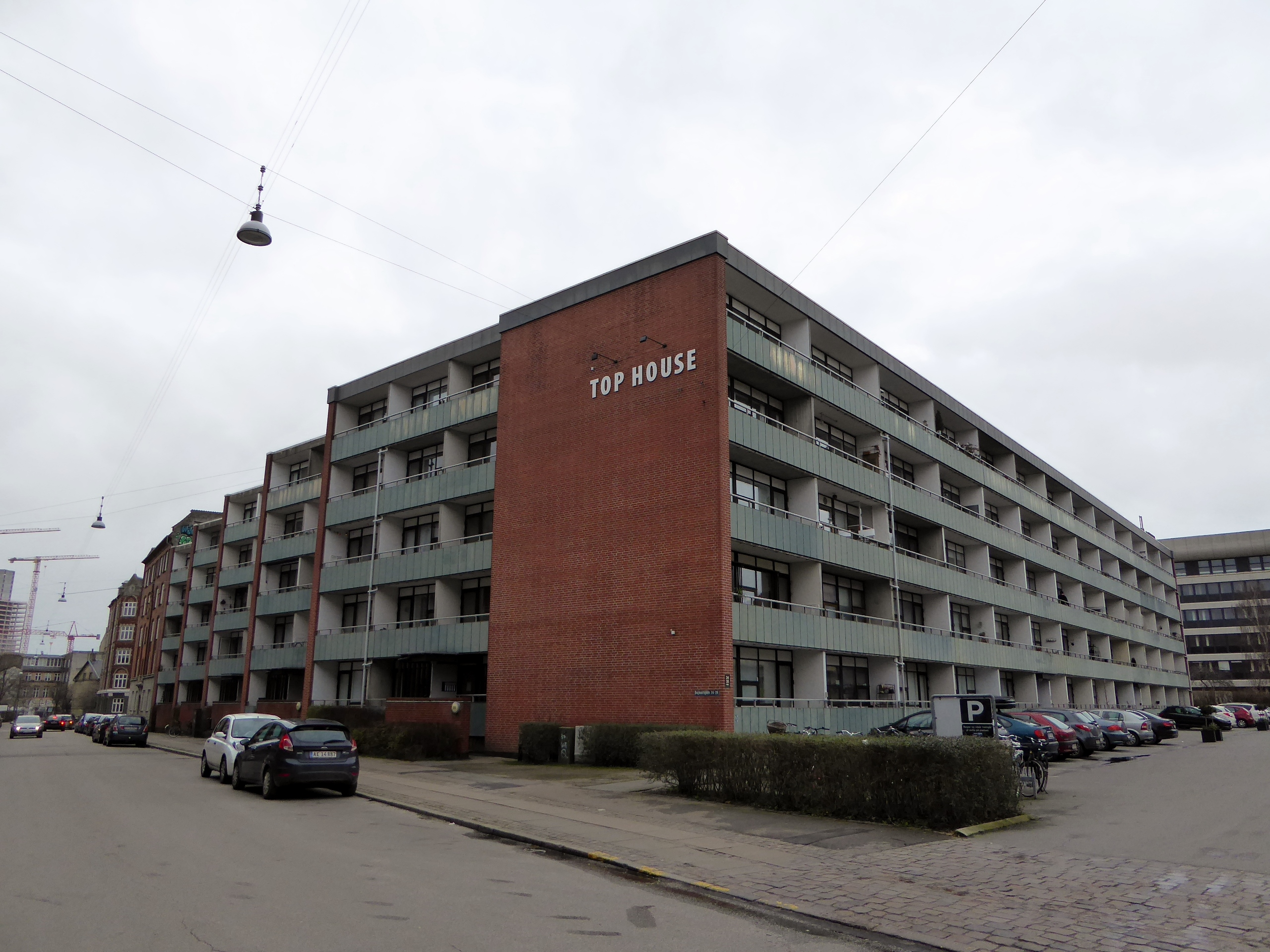 The apartment building Top-House at Dagmarsgade in Nørrebro in Copenhagen.